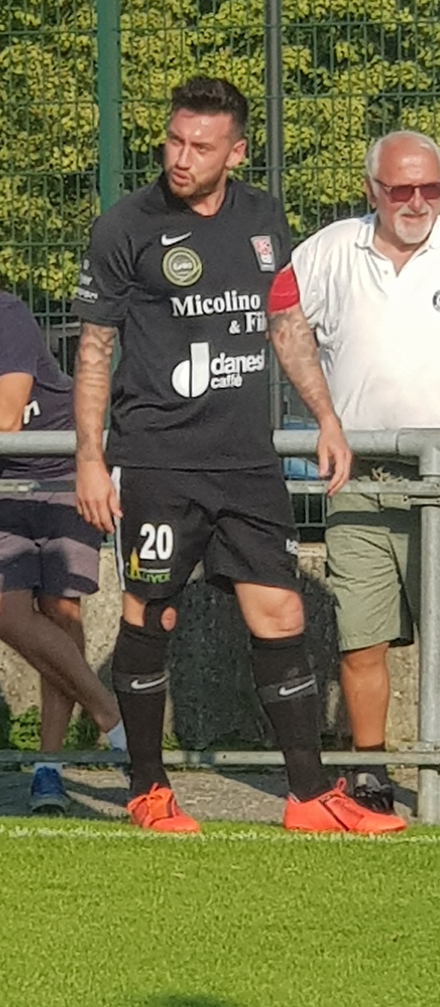 Gilles Bettmer, in the FC Differdange 03 dress, against FC UNA Strassen on 25 August 2019